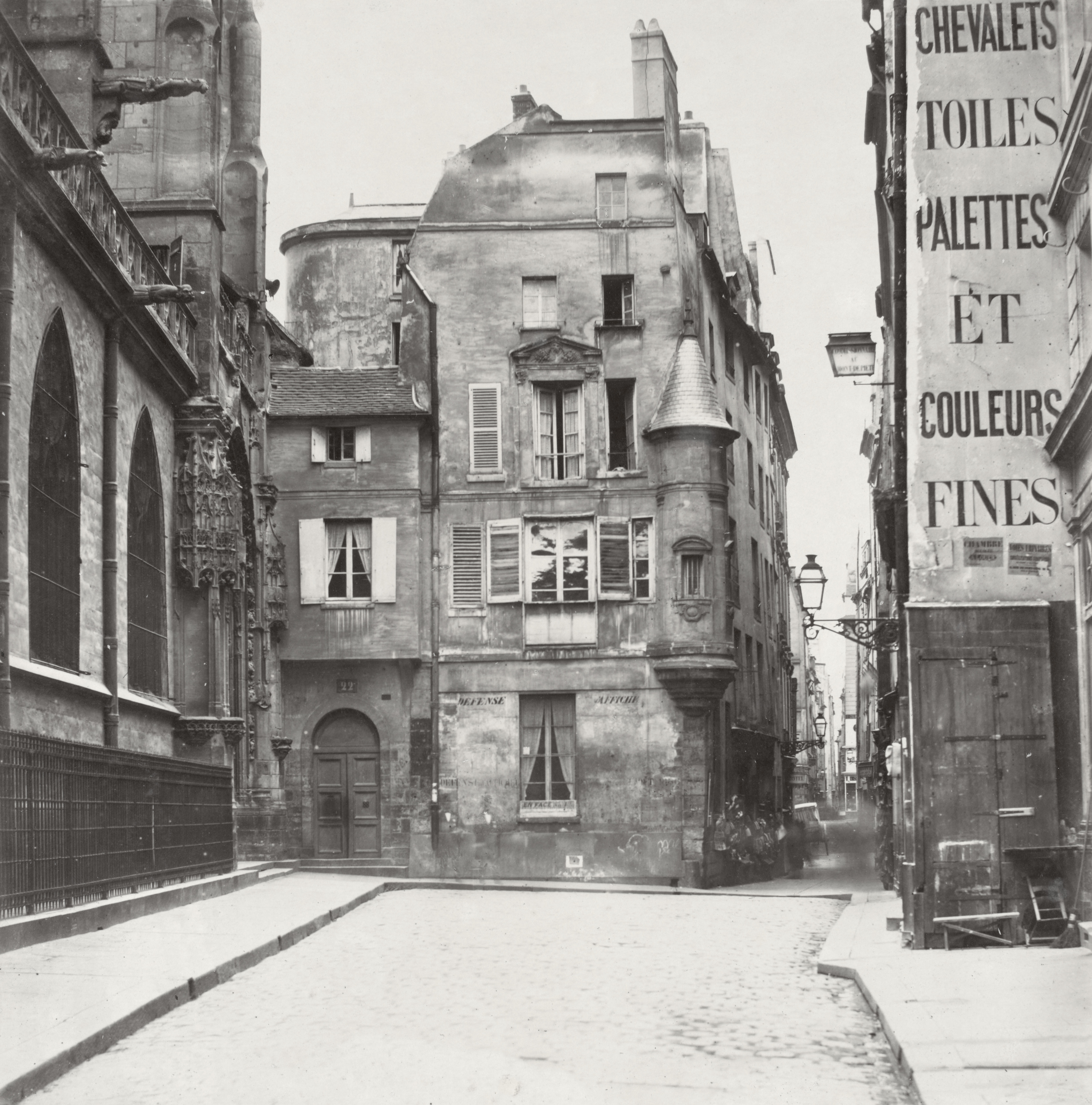 Looking along street towards old building with corner turret, shutters on windows, building on corner of a narrow lane.